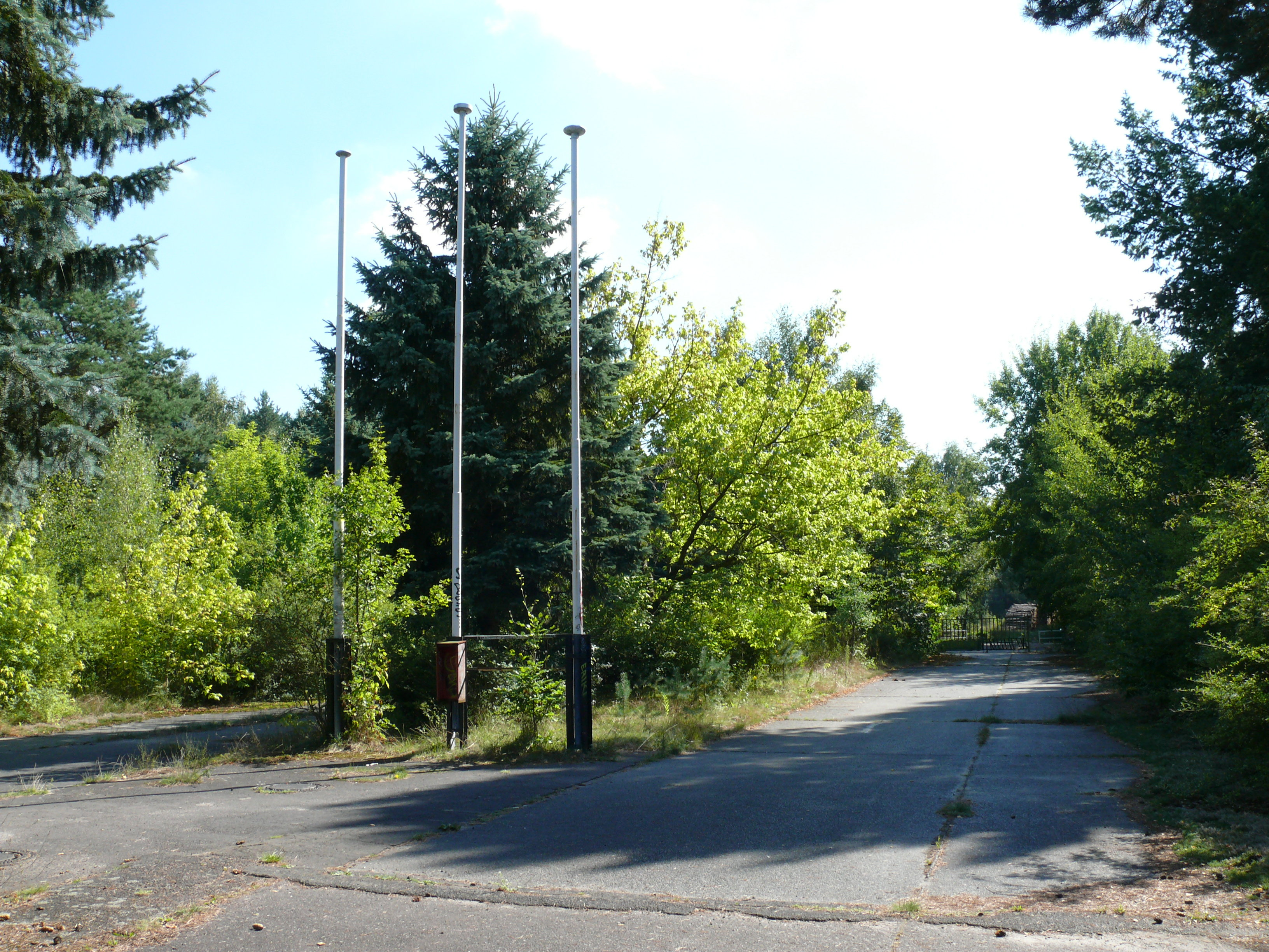 Berlin-Wannsee Albrechts Teerofen Dreilinden